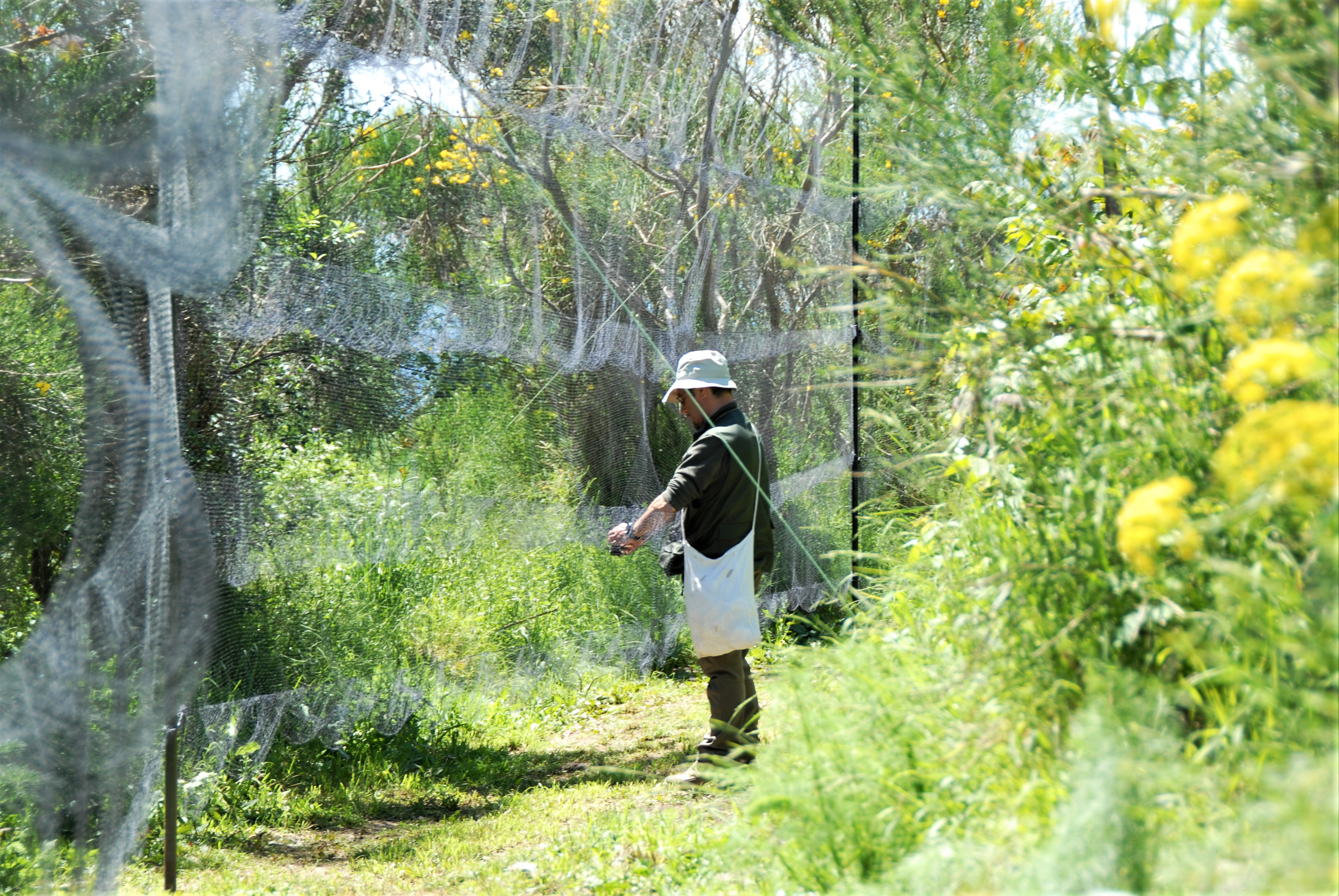 Bird ringing / banding, releasing birds from nets, Ventotene, Italy